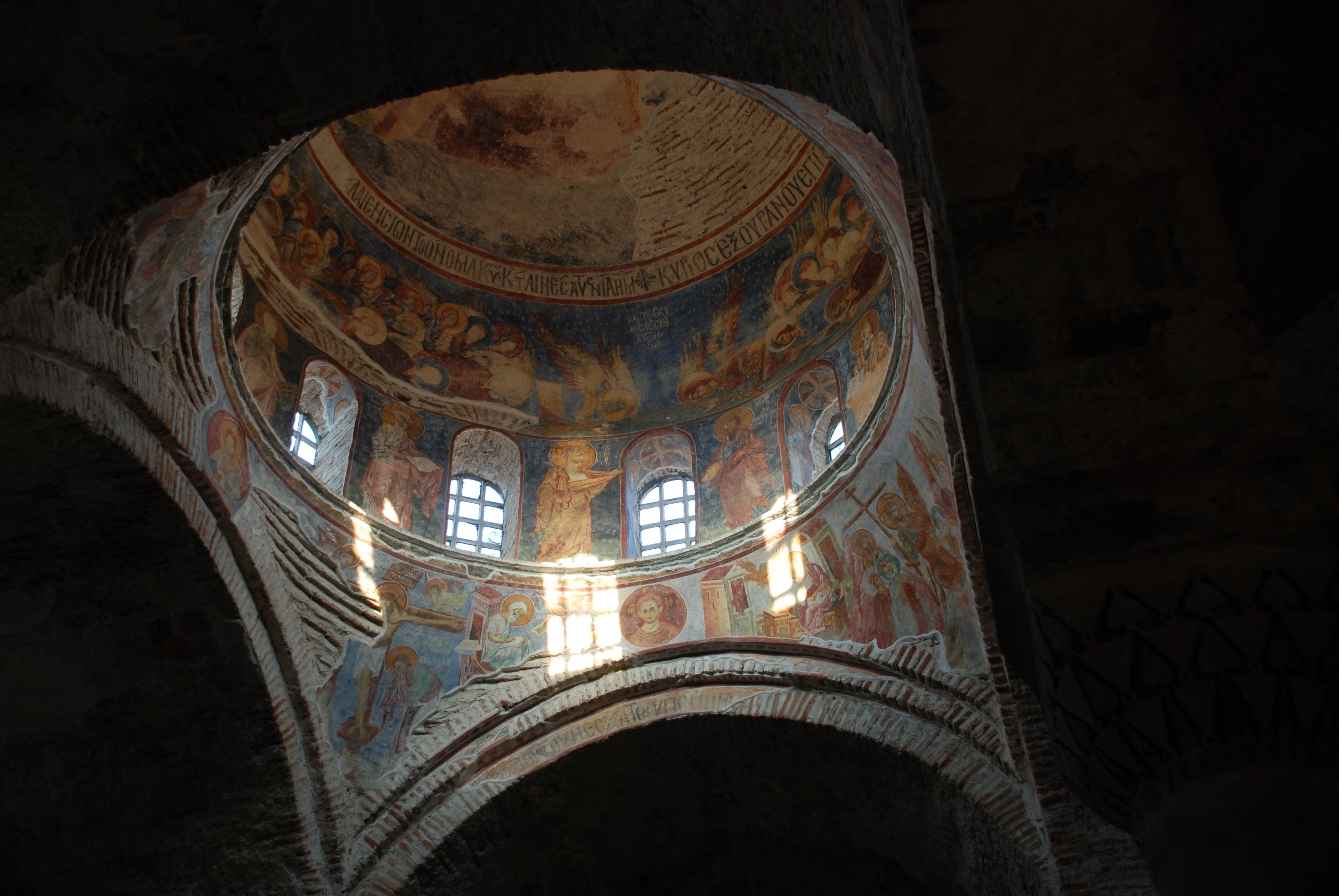 Trabzon, Hagia Sophia, dome